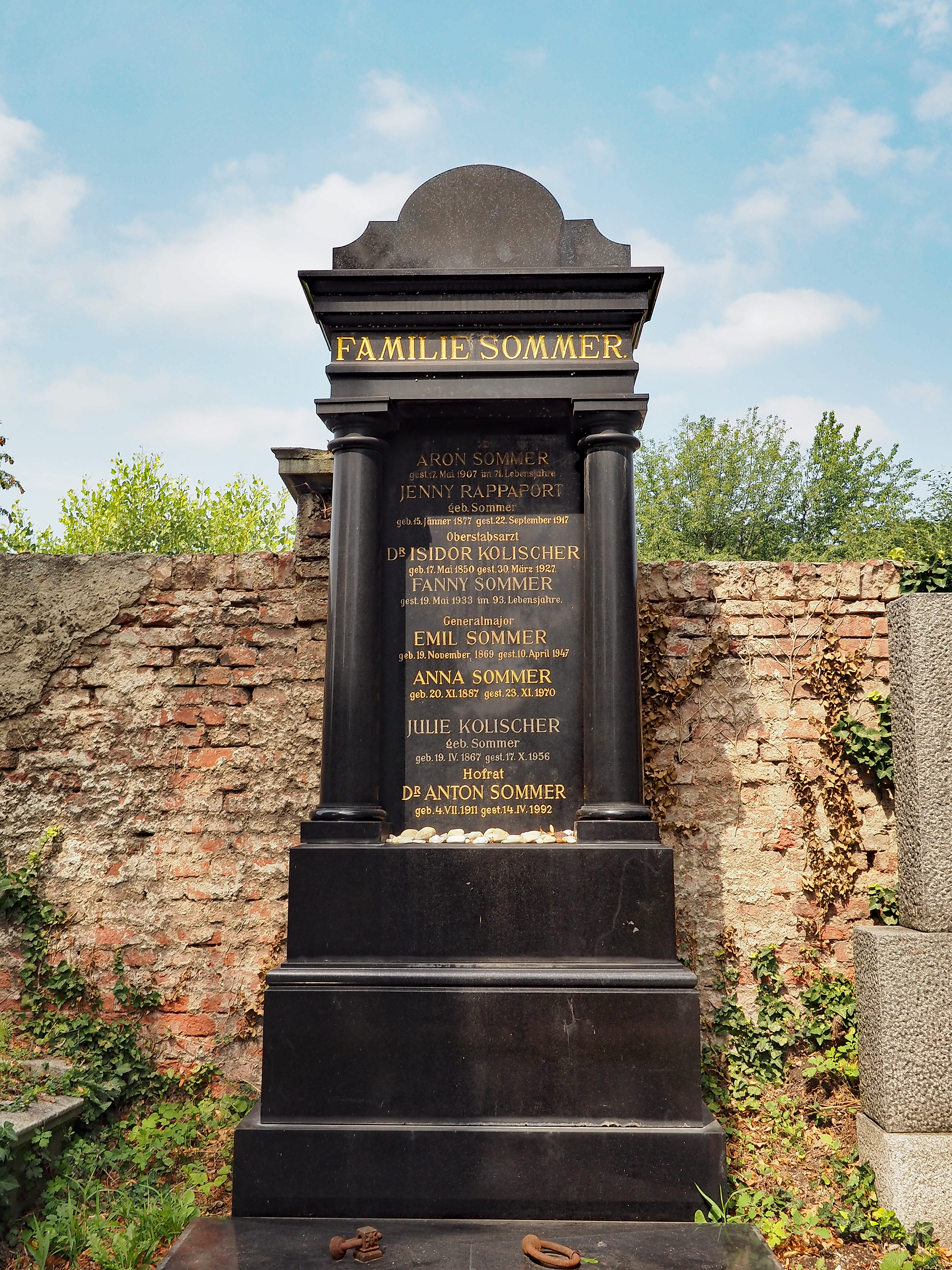 Grave of general Emil Sommer (1869, Vatra Dornei – 1947, Danvers, Massachusetts) in the Old Jewish Part of the Vienna Central Cemetery (20/24/214)